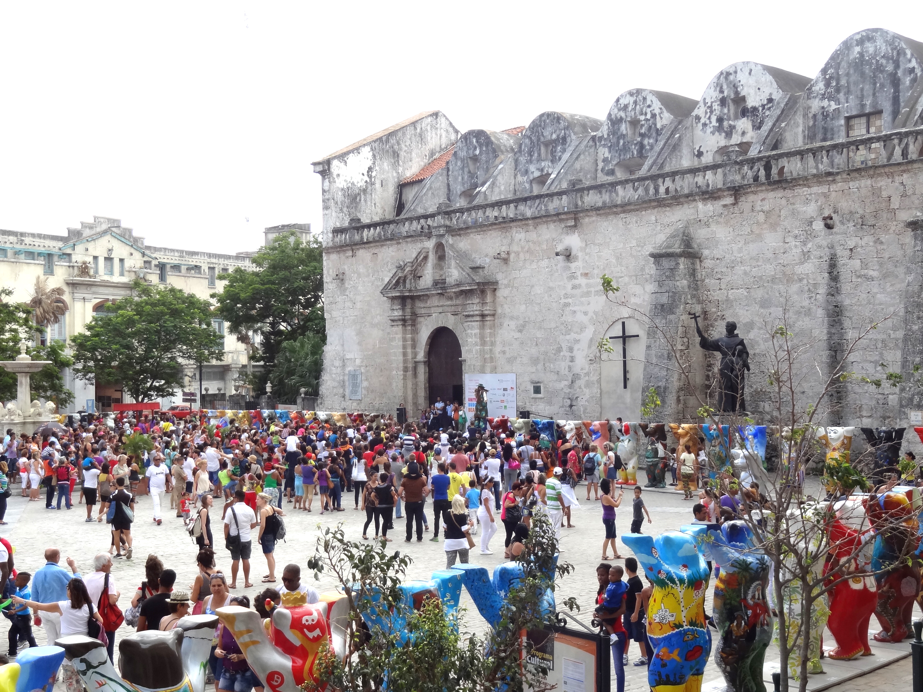 United Buddy Bears, Havana, Plaza San Francisco de Asis, 2015